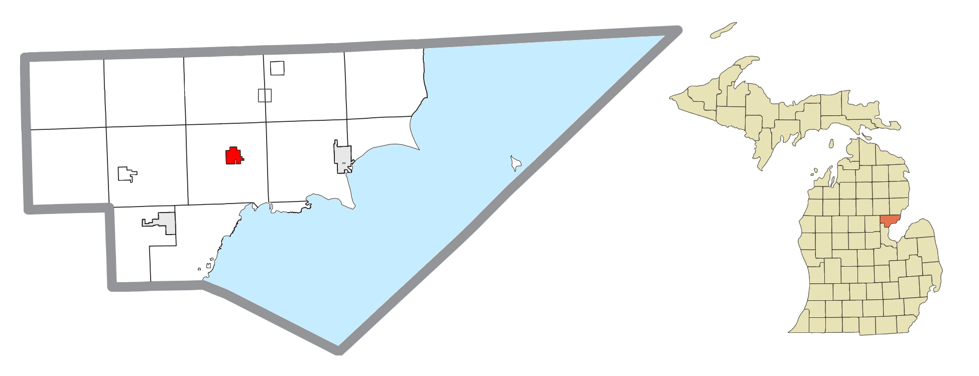 Omer, MI